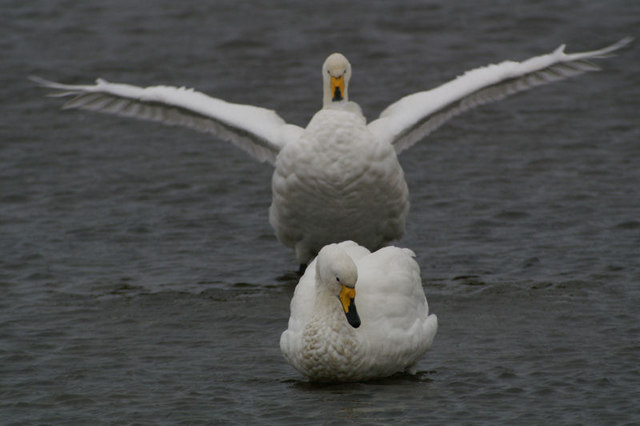 Boo! - Easter Loch, Uyeasound Whooper Swans (Cygnus cygnus) on Easter Loch.